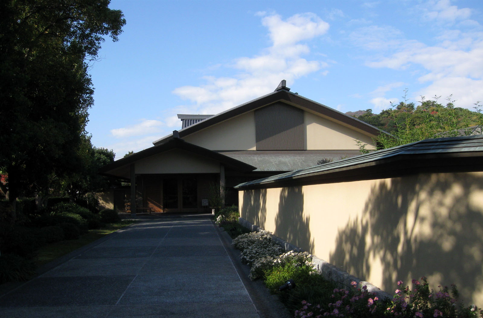 Ikuo Hirayama Museum, Onomichi, Hiroshima, Japan.